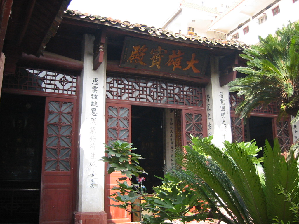 Puhui Temple, locating in Lianjiang Town, Xingguo County, Ganzhou City, Jiangxi Province. It is a historical and culture site protected at the county level.